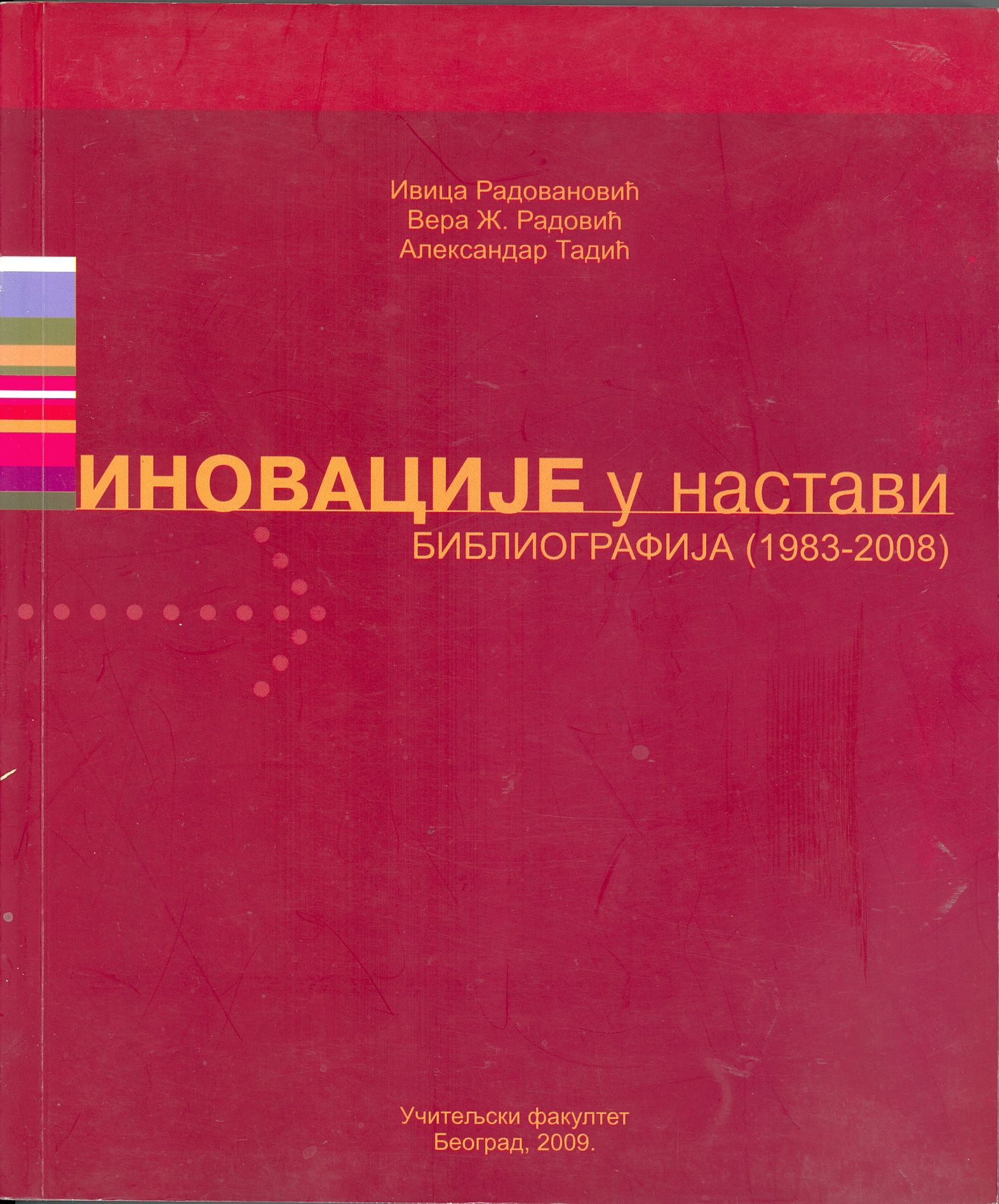 Journal cover